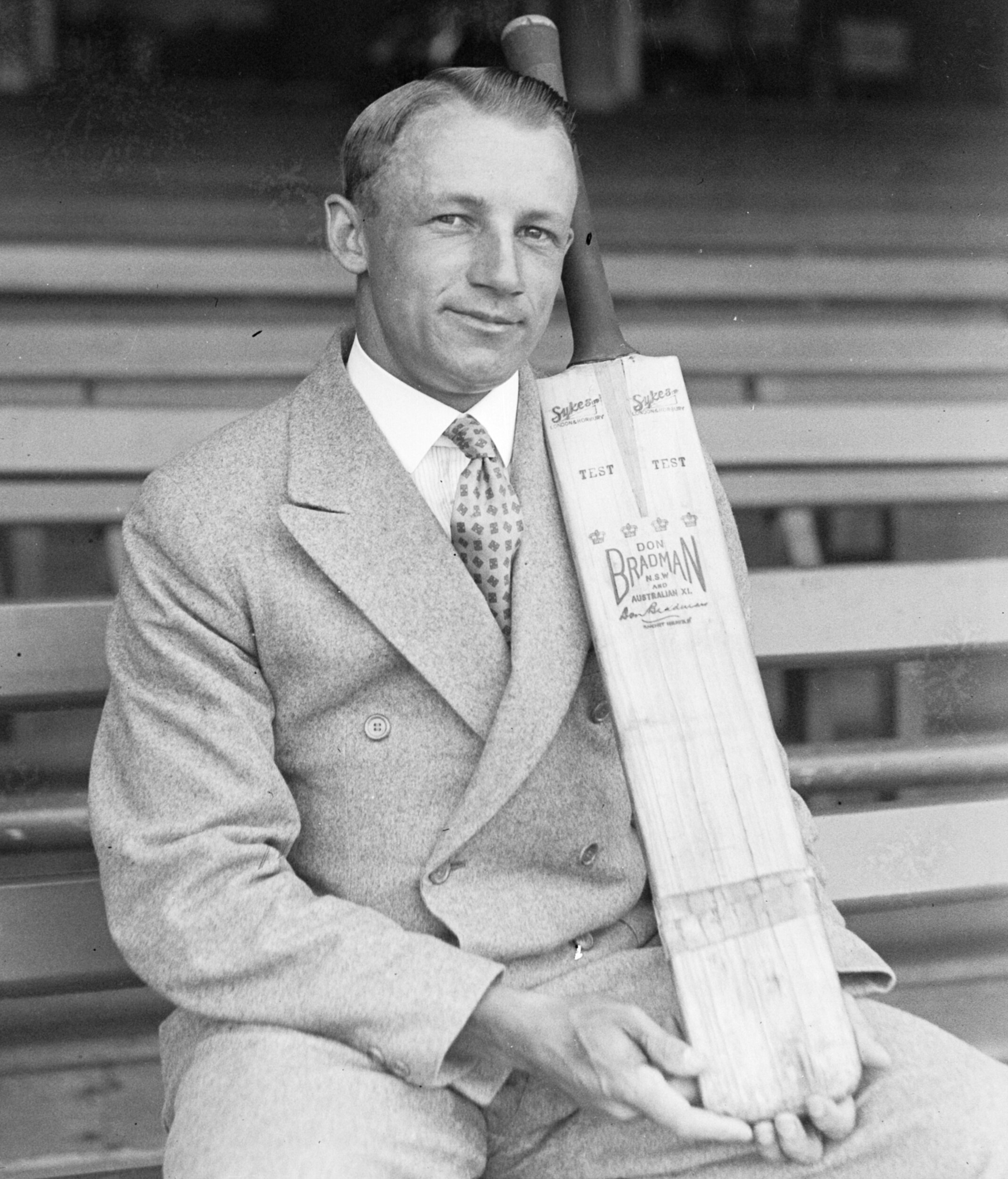 Don Bradman posing with his "Don Bradman" Sykes brand bat